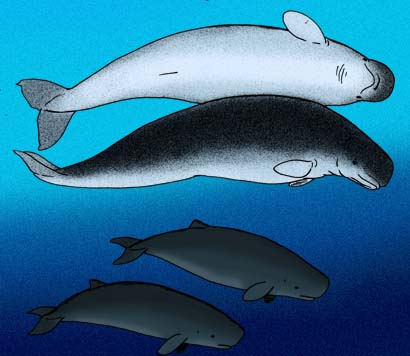 Comparison of the prehistoric monodontid Denebola brachycephala (top) and the pygmy sperm whale, Praekogia cedrosensis, from the Late Miocene of Baja California